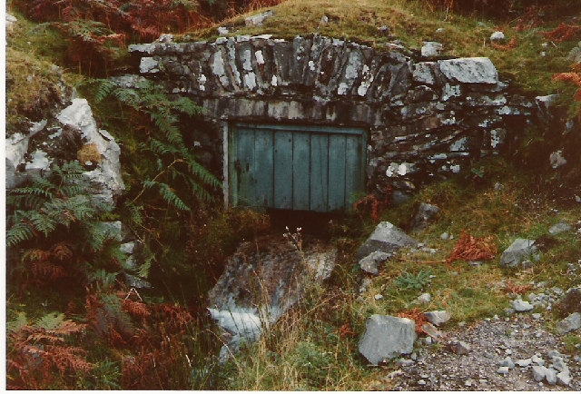 Disused underground mine in Kentmere. Adit level, now used as a water supply. Near Browfoot. (grid reference NY455005)